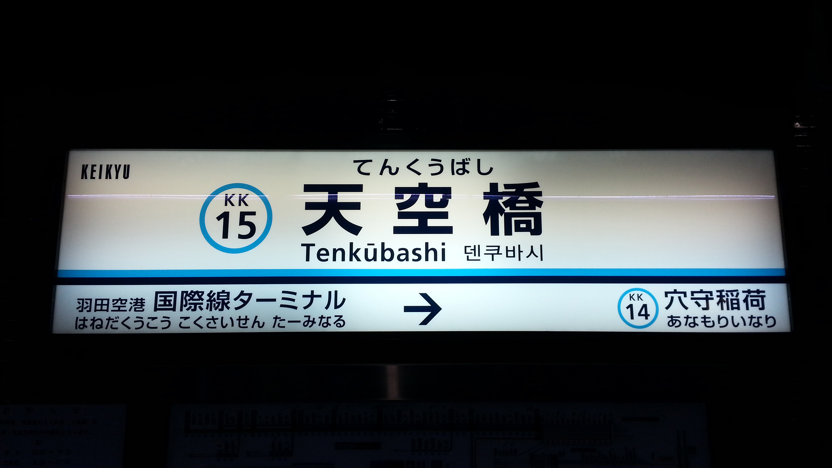 A sign of Tenkūbashi Station, Keikyu Railway